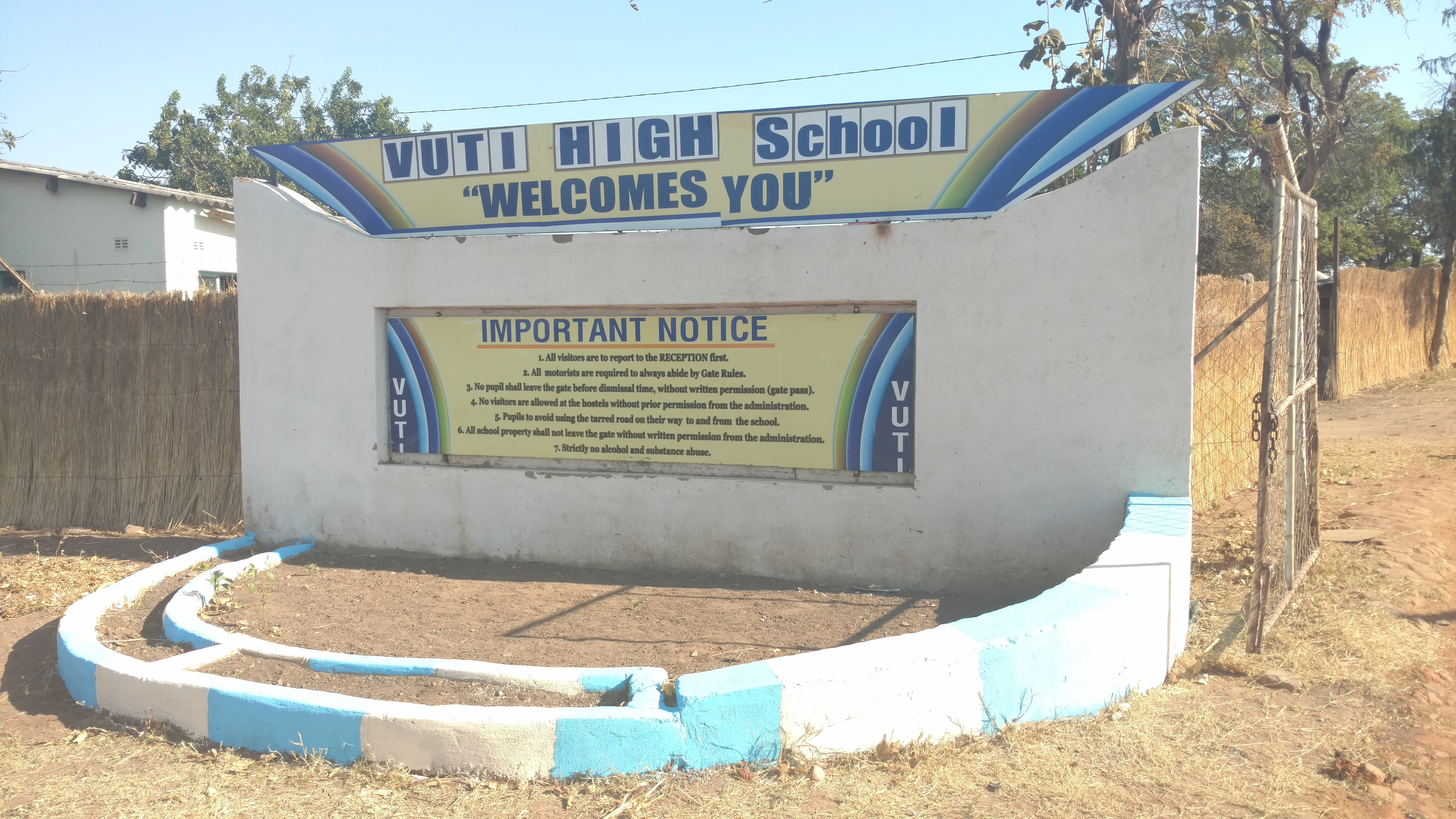 Sign at entrance of Vuti High School in Vuti, Zimbabwe. The sign includes notice of rules for the school.